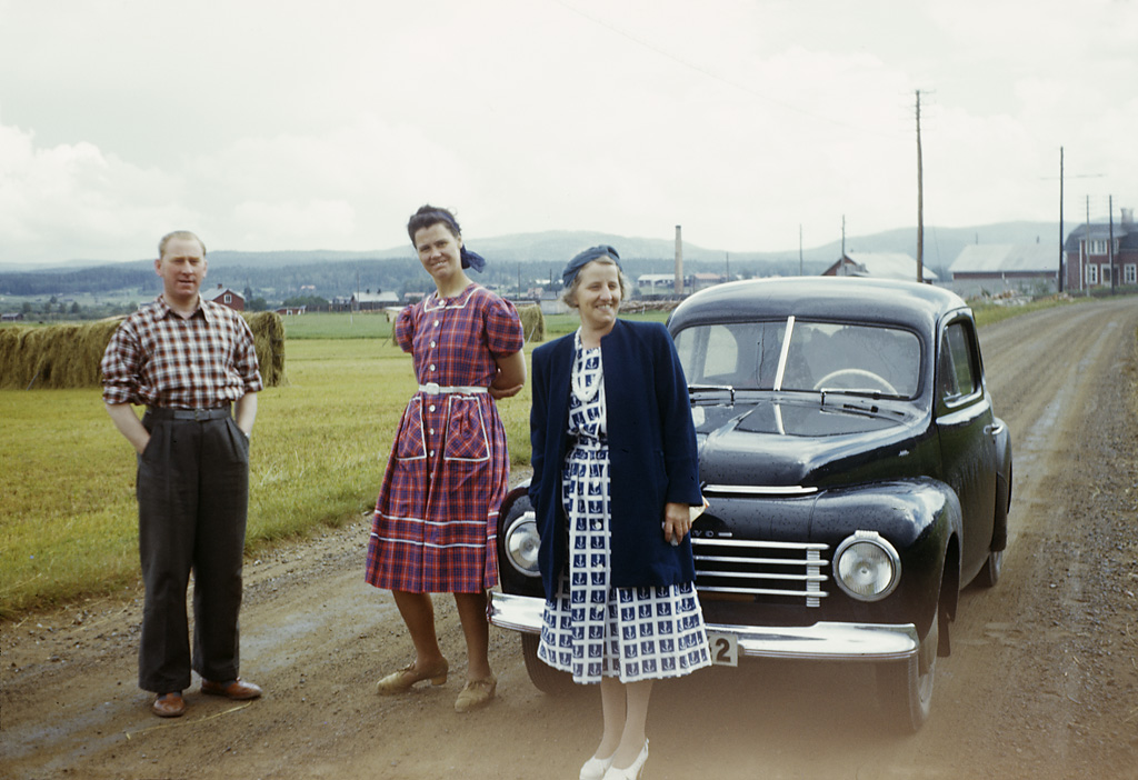 On the way to Norway. Gustaf, Carin, Lilly and a Volvo PV. På väg till Norge. Gustaf, Carin, Lilly och en Volvo PV. Parish (socken): Järvsö Province (landskap): Hälsingland Municipality (kommun): Ljusdal County (län): Gävleborg Photograph by: Fredrik Bruno Date: 13.07.1948 Format: Colour slide Persistent URL: Read more about the photo database (in english)